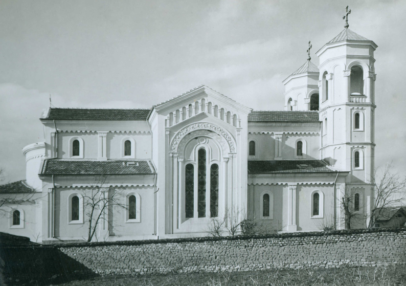 Newly built catholic church in Belozem in 1930